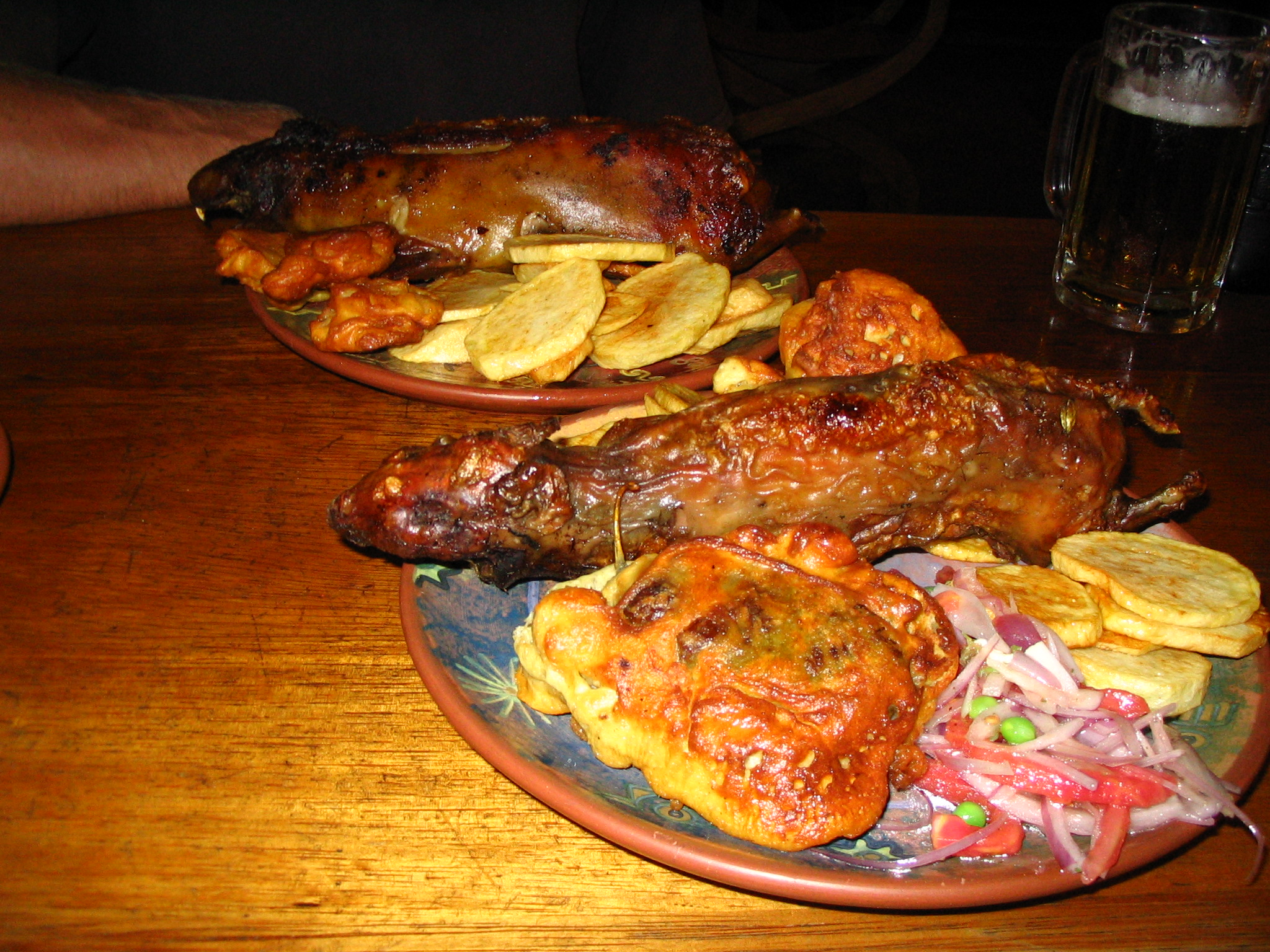 A typical Peruvian dish of roast cuy, as the locals call it.